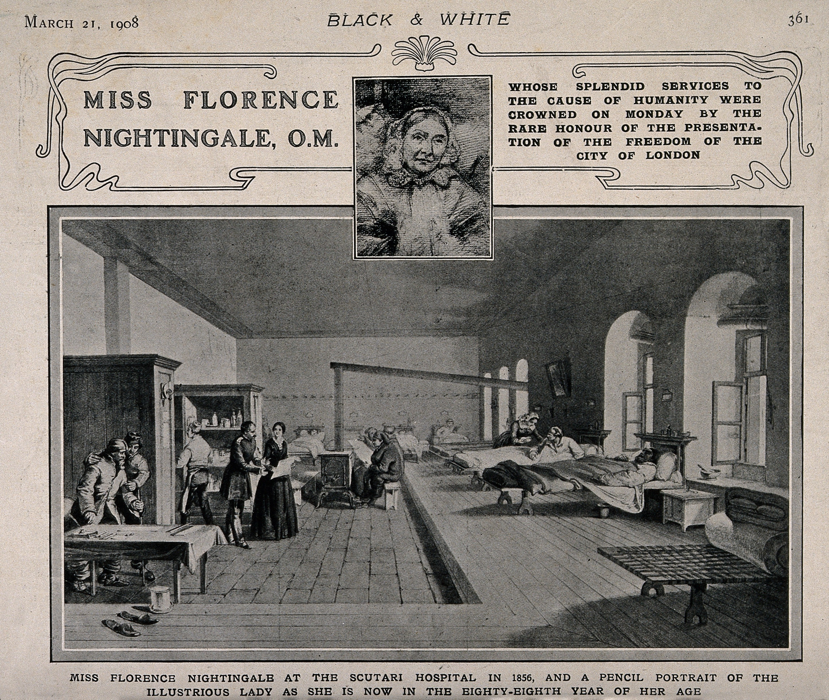 Crimean War: Florence Nightingale at Scutari Hospital, 1856, plus a portrait drawing. Process print, 1908. Iconographic Collections Keywords: florence nightingale; crimea crimean war; Florence Nightingale; scuatari